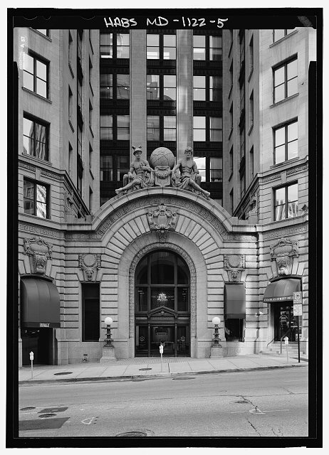 B&O Headquarters Building, Baltimore